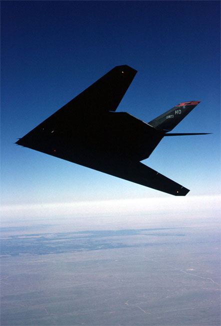 An F-117A Nighthawk in flight